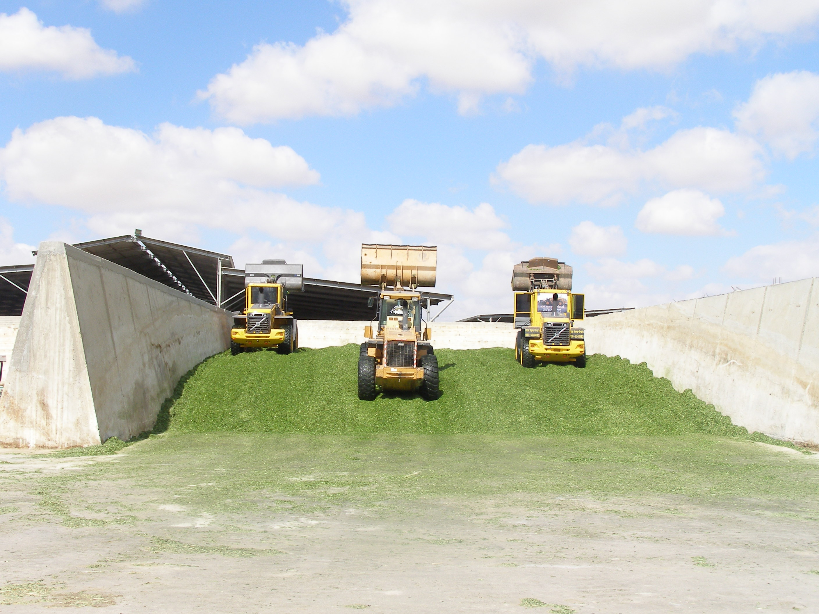 Loaders compressing wheat silage, Revivim, Israel